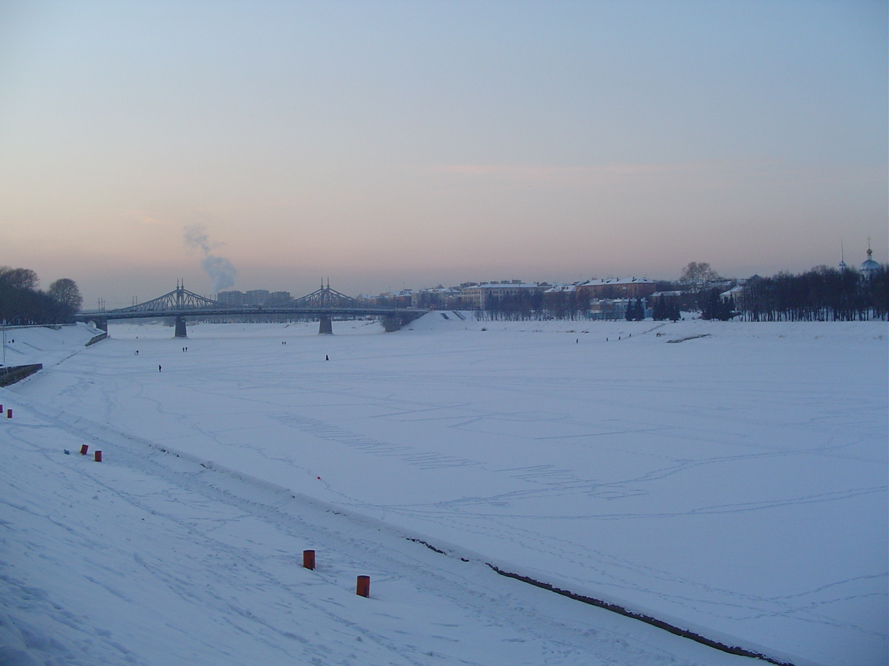 Tver, Volga River in winter 2006